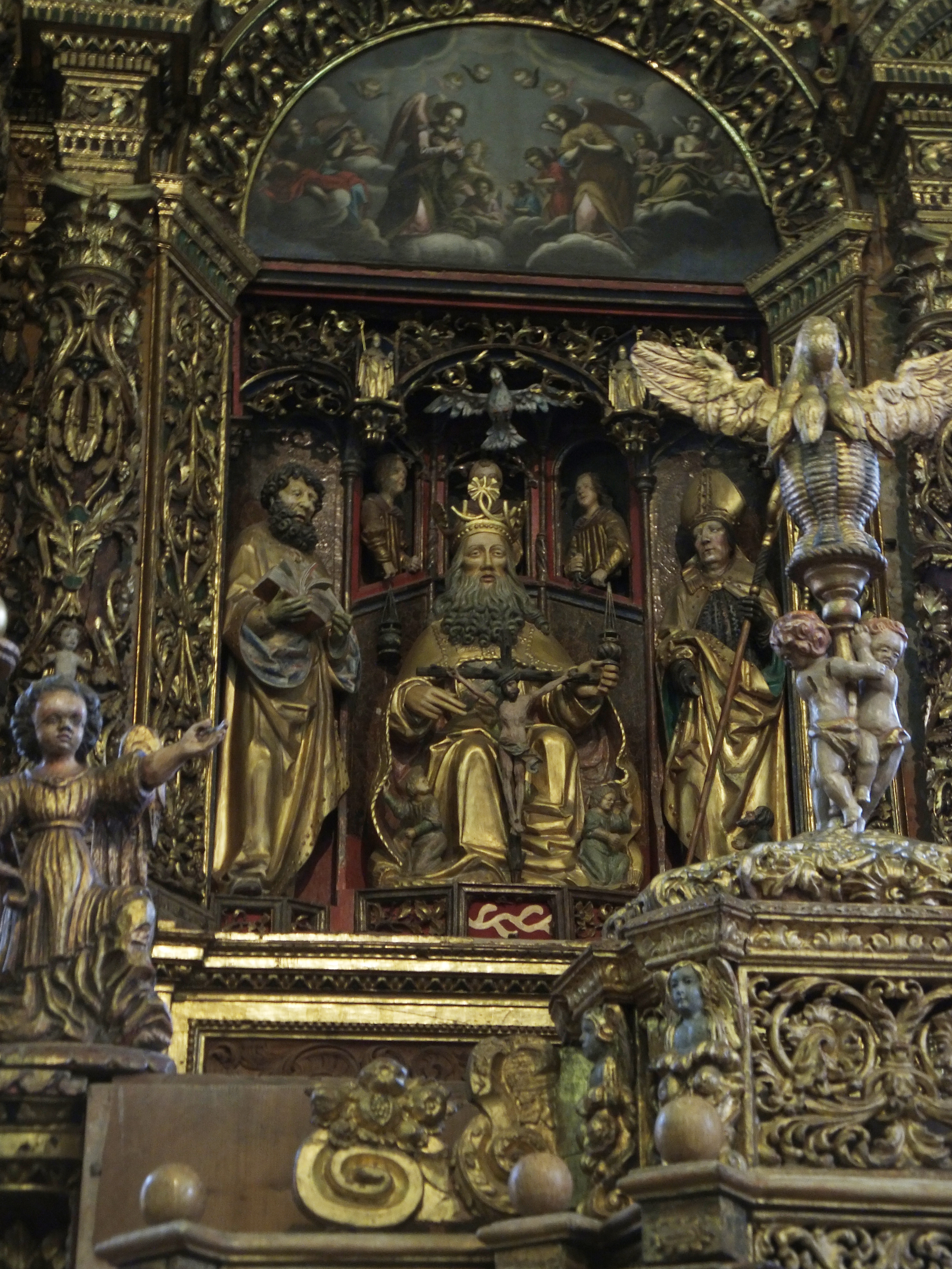 Segonzano (Trentino, Italy) - Holy Trinity church, interior - Central figures decorating the main altar